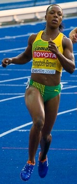 Veronica Campbell-Brown, Berlin 2009